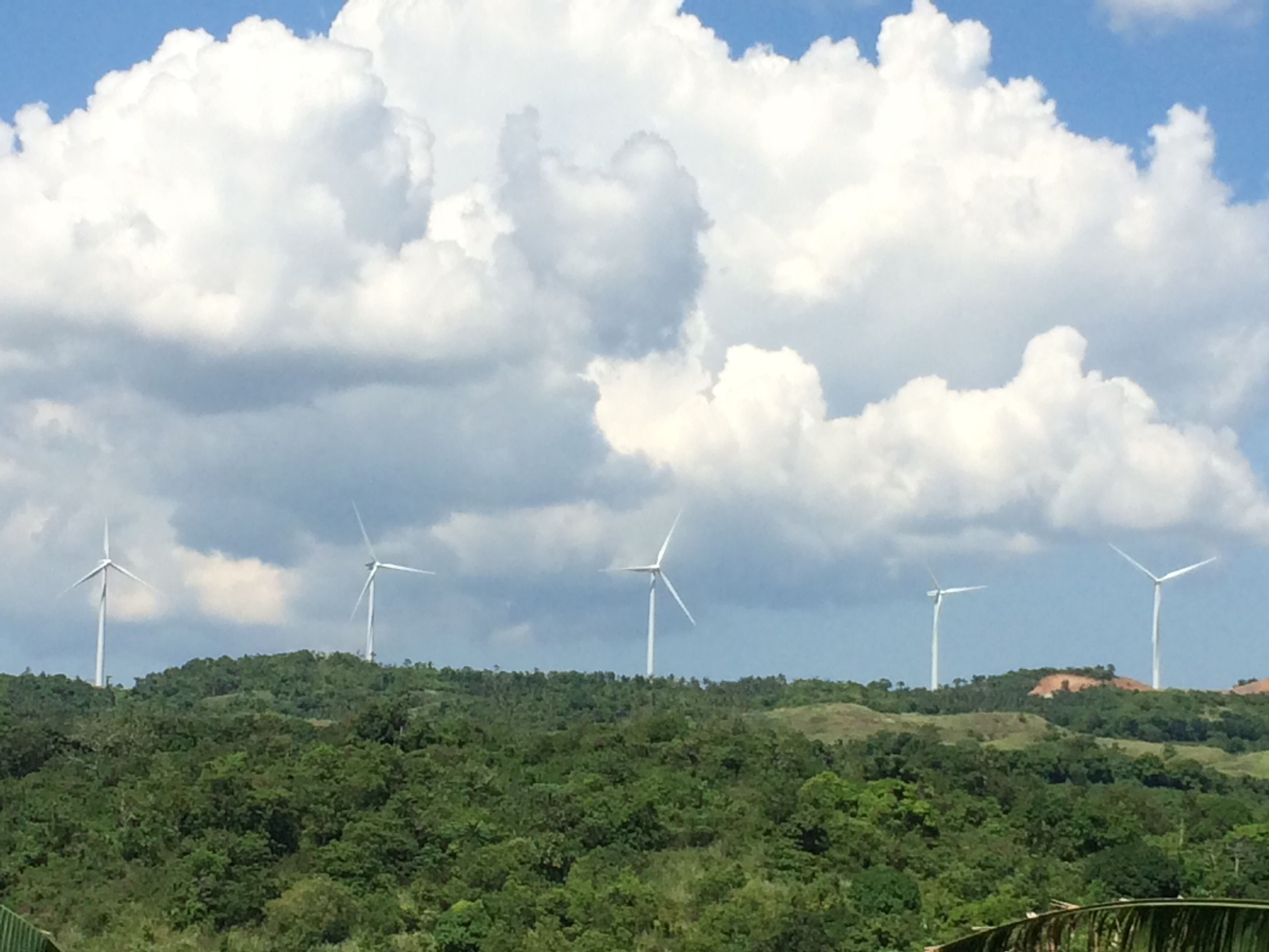 Pililla Wind Farm, viewed from the access road